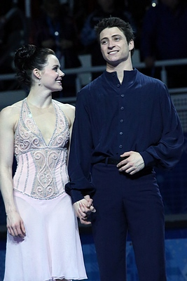 Tessa Virtue and Scott Moir at the 2014 Winter Olympics